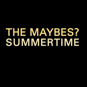 Single cover for Summertime by The Maybes?